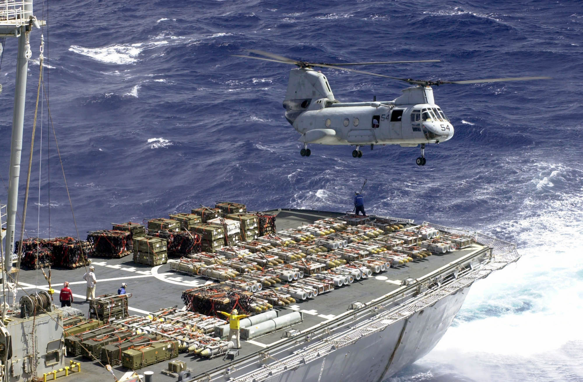 Pacific Ocean (Mar. 24, 2003) -- A CH-46 Sea Knight of the “Gunbearers” Helicopter Combat Support Squadron One One (HC-11), transfers ordnance from the Military Sealift Command (MSC) munitions ship USNS Kilauea (T-AE 26) to aircraft carrier USS Nimitz (CVN 68) during a Vertical Replenishment (VERTREP). U.S. Navy Photo by Photographer’s Mate Airman Maebel Tinoko. (RELEASED)